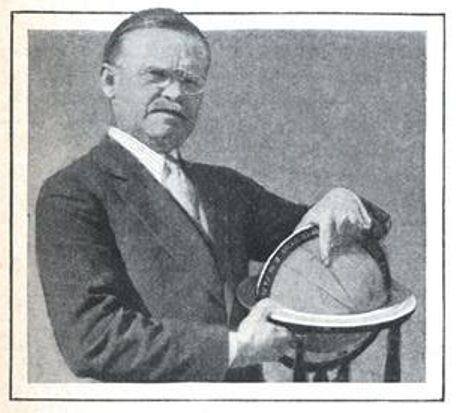 Halbert P. Gillette, 1930